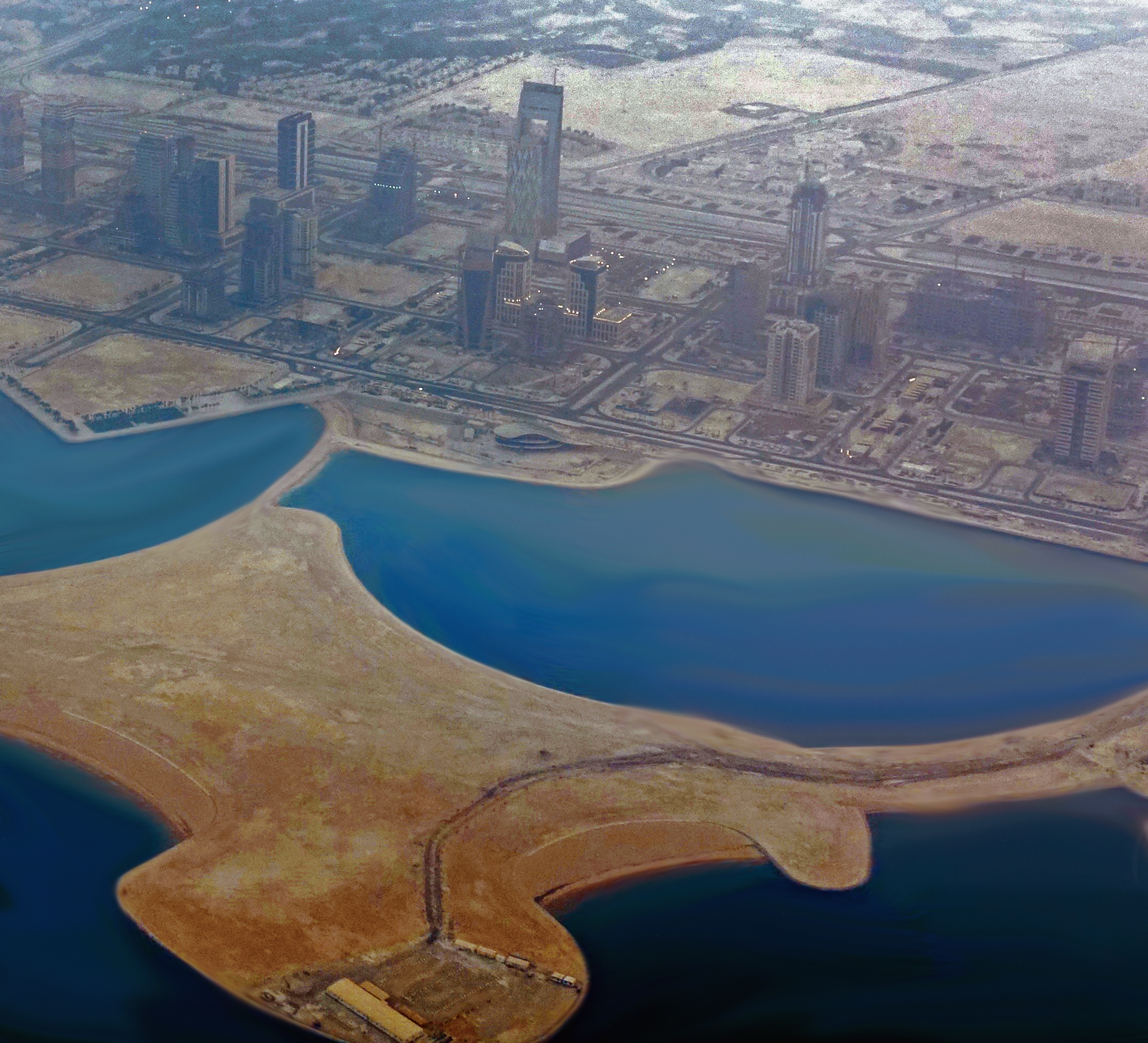 Aerial view of an island and construction in Lusail, Qatar.